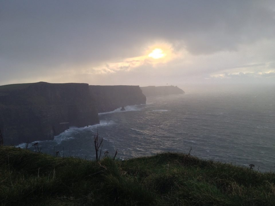 Cliffs of Moher with the sun bursting through the clouds